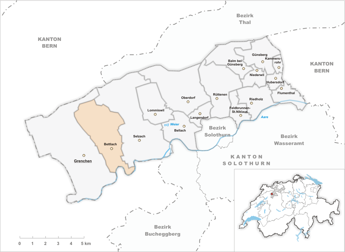 Municipality Bettlach